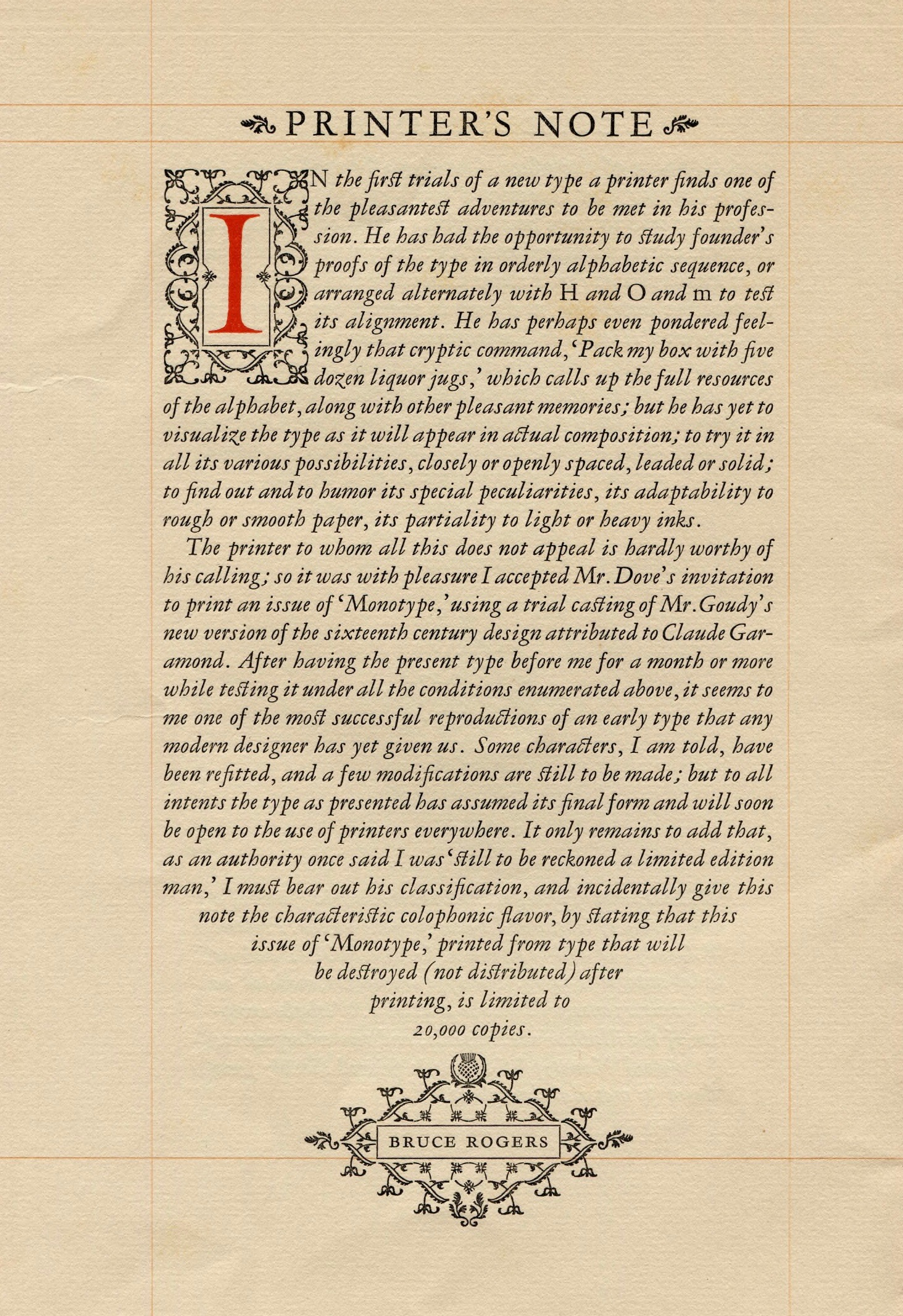 Specimen of Monotype's new Garamont font.